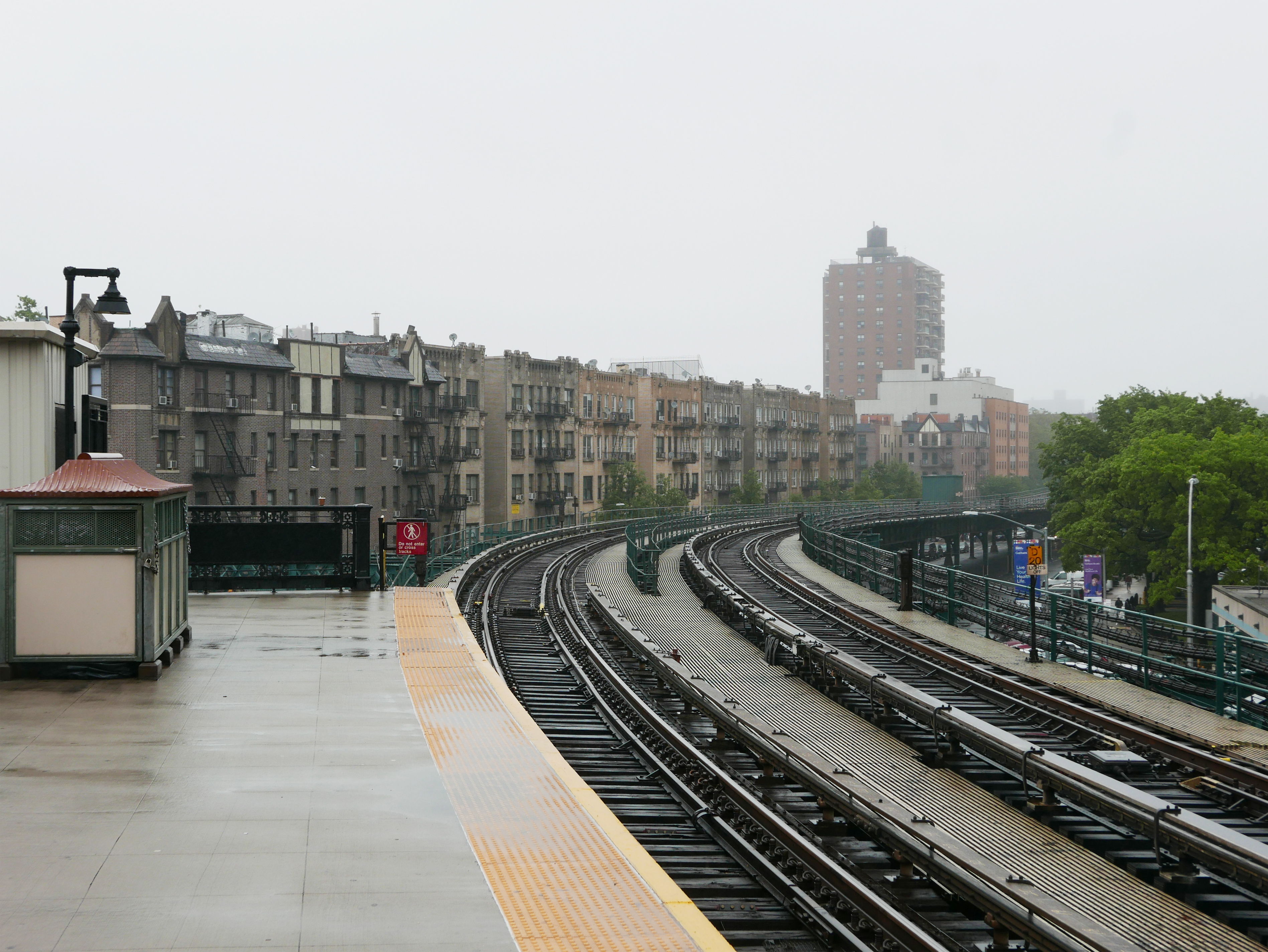 The north end of the IRT Dyckman Street station, taken in the light rain from the southbound platform.